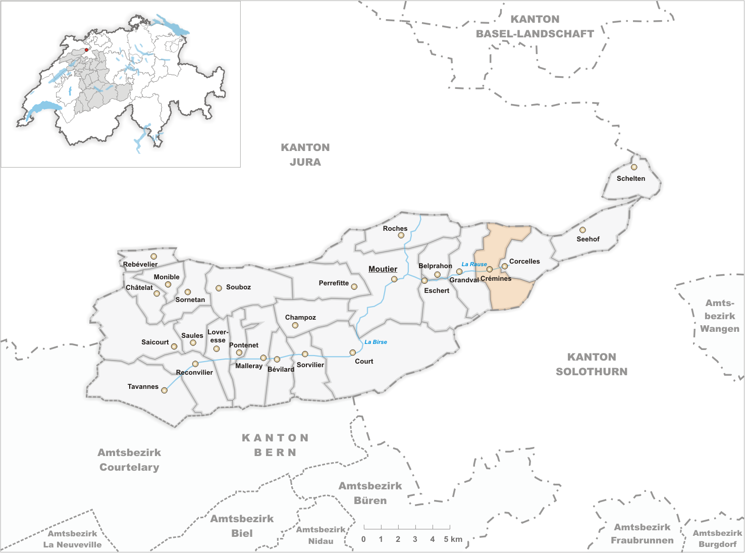 Municipality Crémines